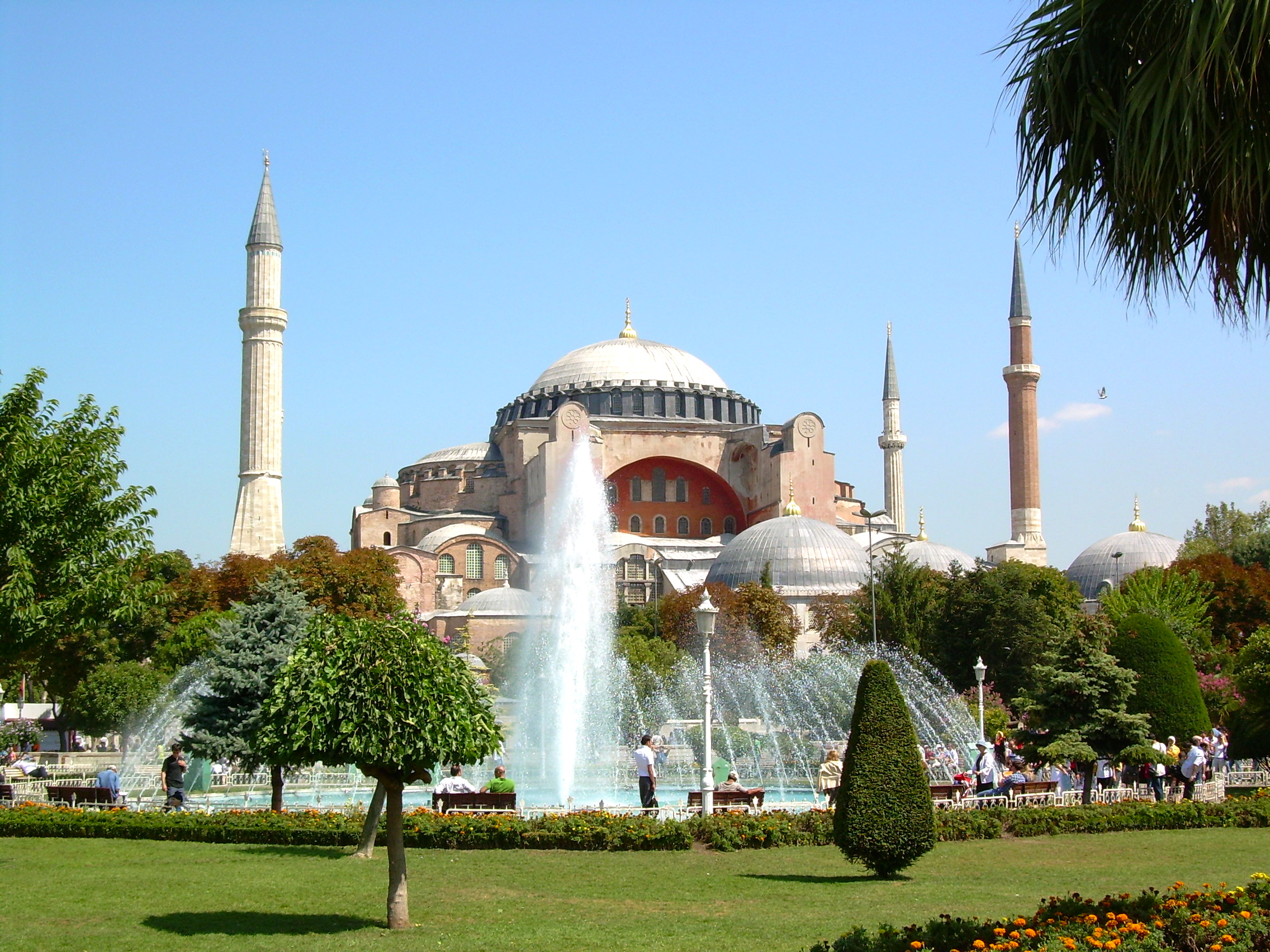 A view on the Ayasofya, İstanbul. Photo taken on 3 September 2009.